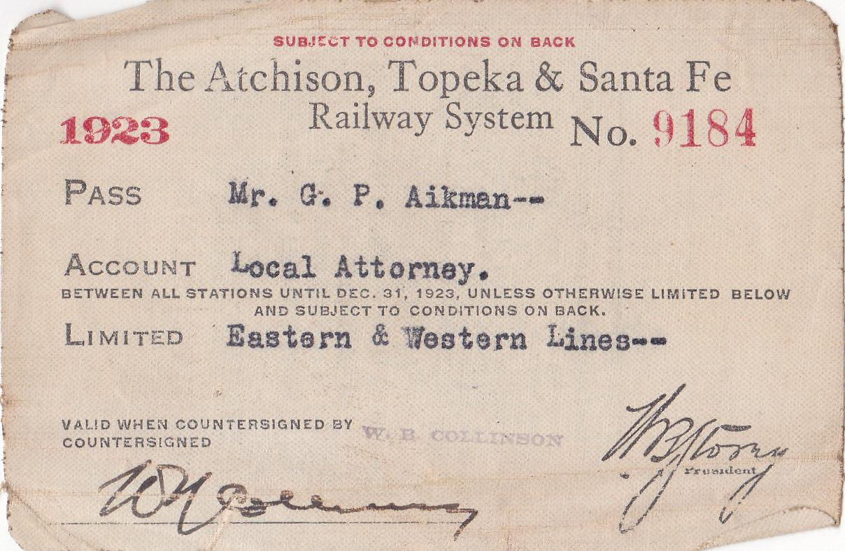 A 1923 ATSF Railway annual passenger pass